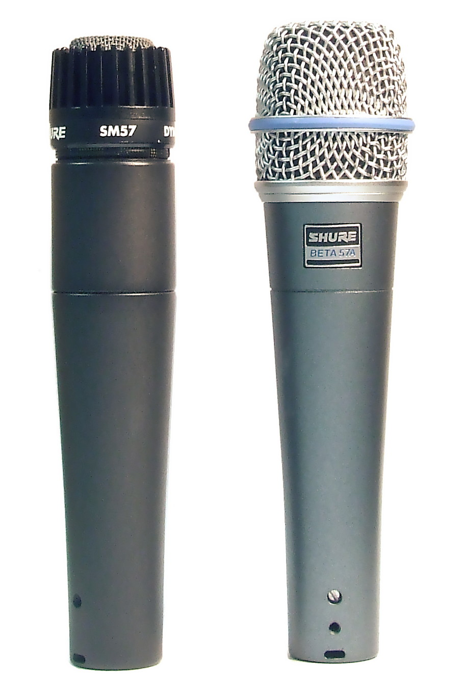 The Shure SM57 (left) and Beta57a microphones